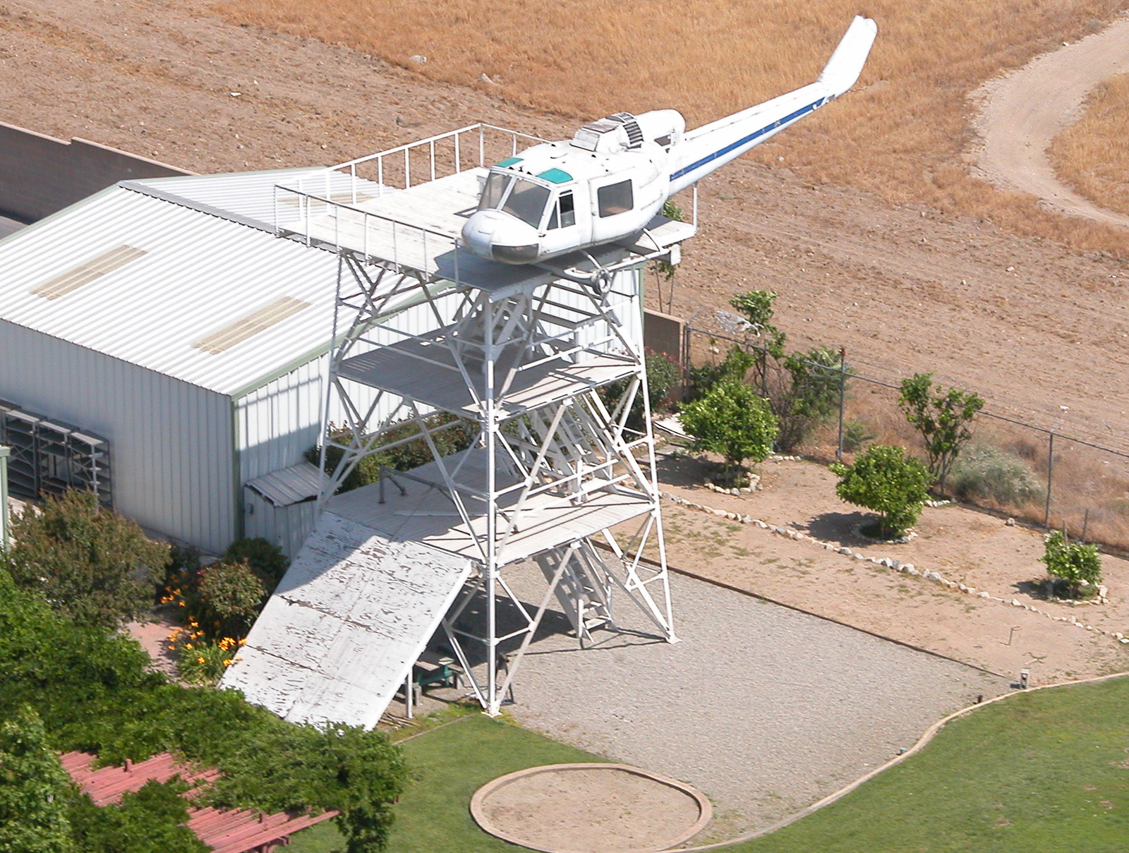 Old UH-1B used for rappelling training at the San Bernardino County (California) Sherrif's Department aviation unit headquarters, Rialto, California